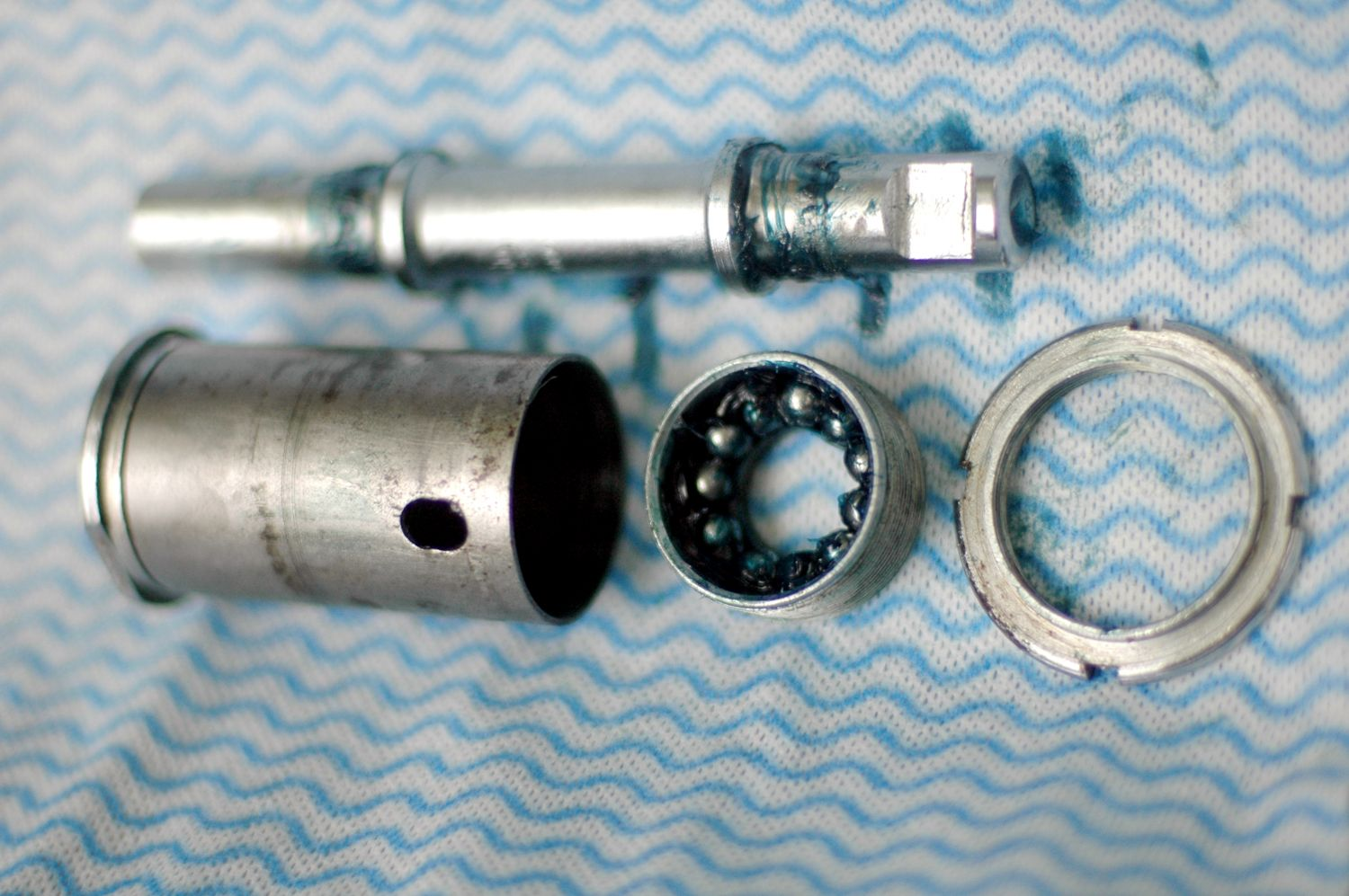 Unusual 'Bayliss Wiley Unit Bottom Bracket' used in Royal Enfield Revelation bicycle